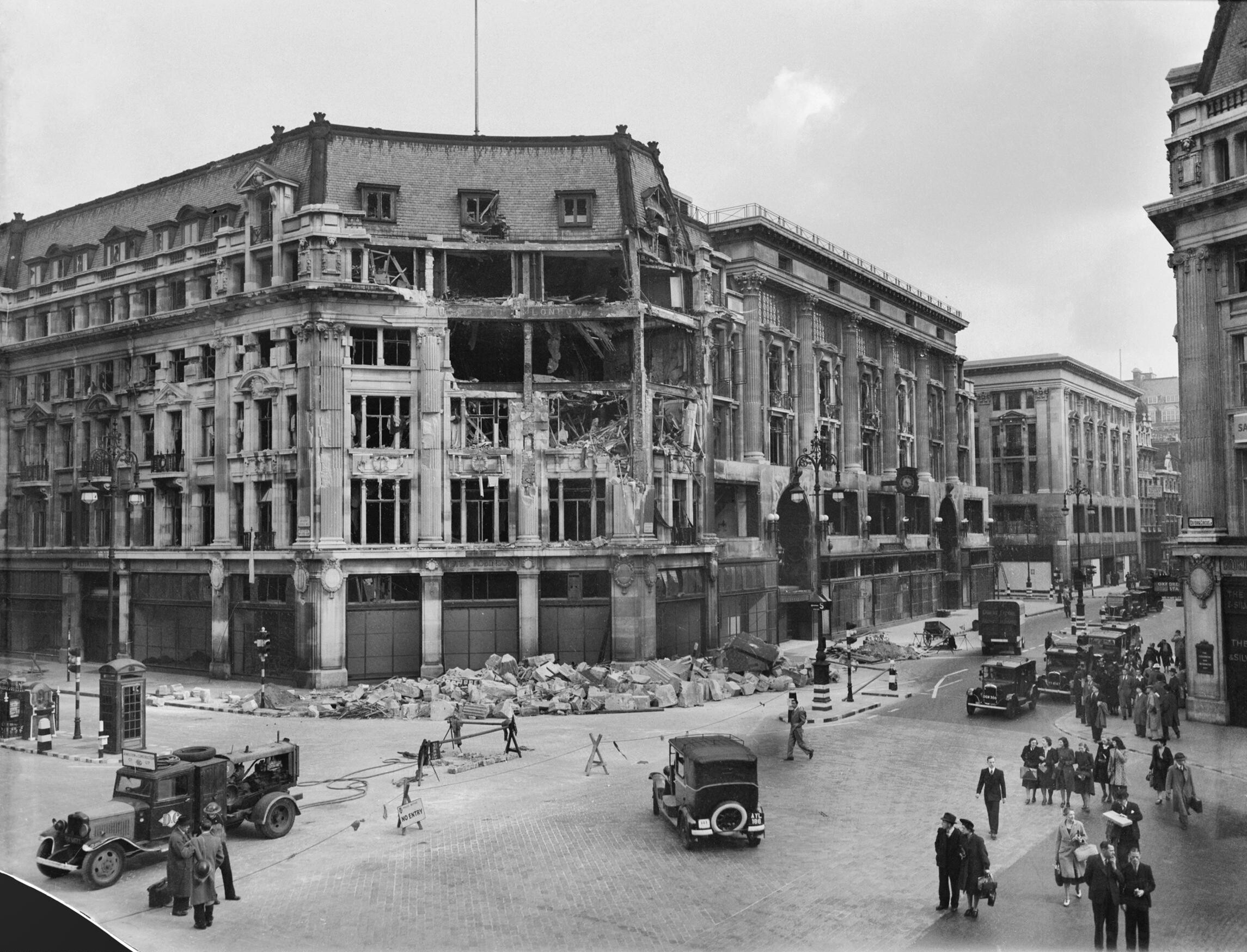 The damaged Peter Robinson department store at Oxford Circus, following a German air raid on London, September 1940. A wide view of the damage sustained by the Peter Robinson department store at Oxford Circus, following an air raid on London. Half of the front of the building has been destroyed and large mounds of rubble are piled outside.